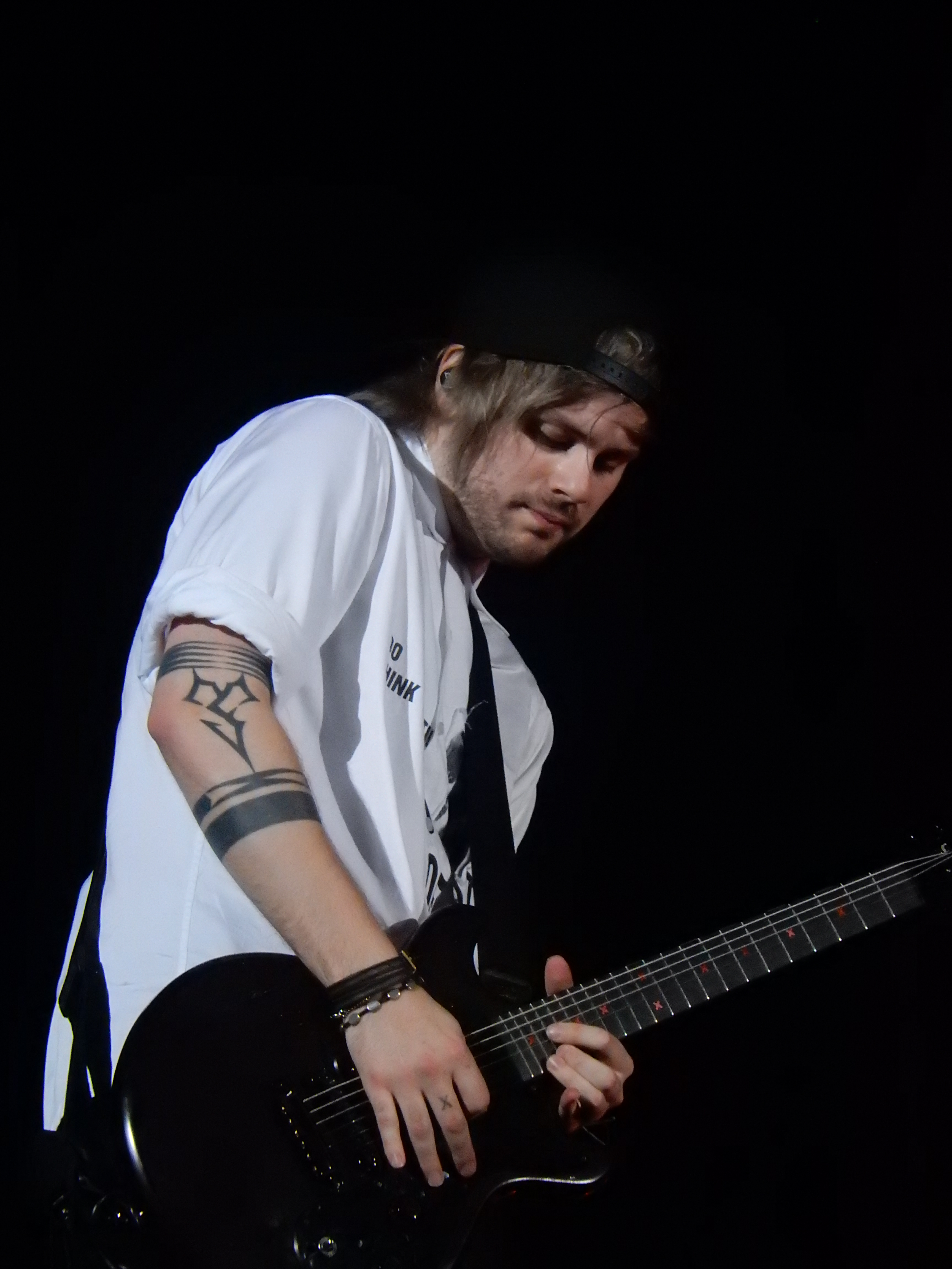 5 Seconds Of Summer, Hammersmith Apollo, London